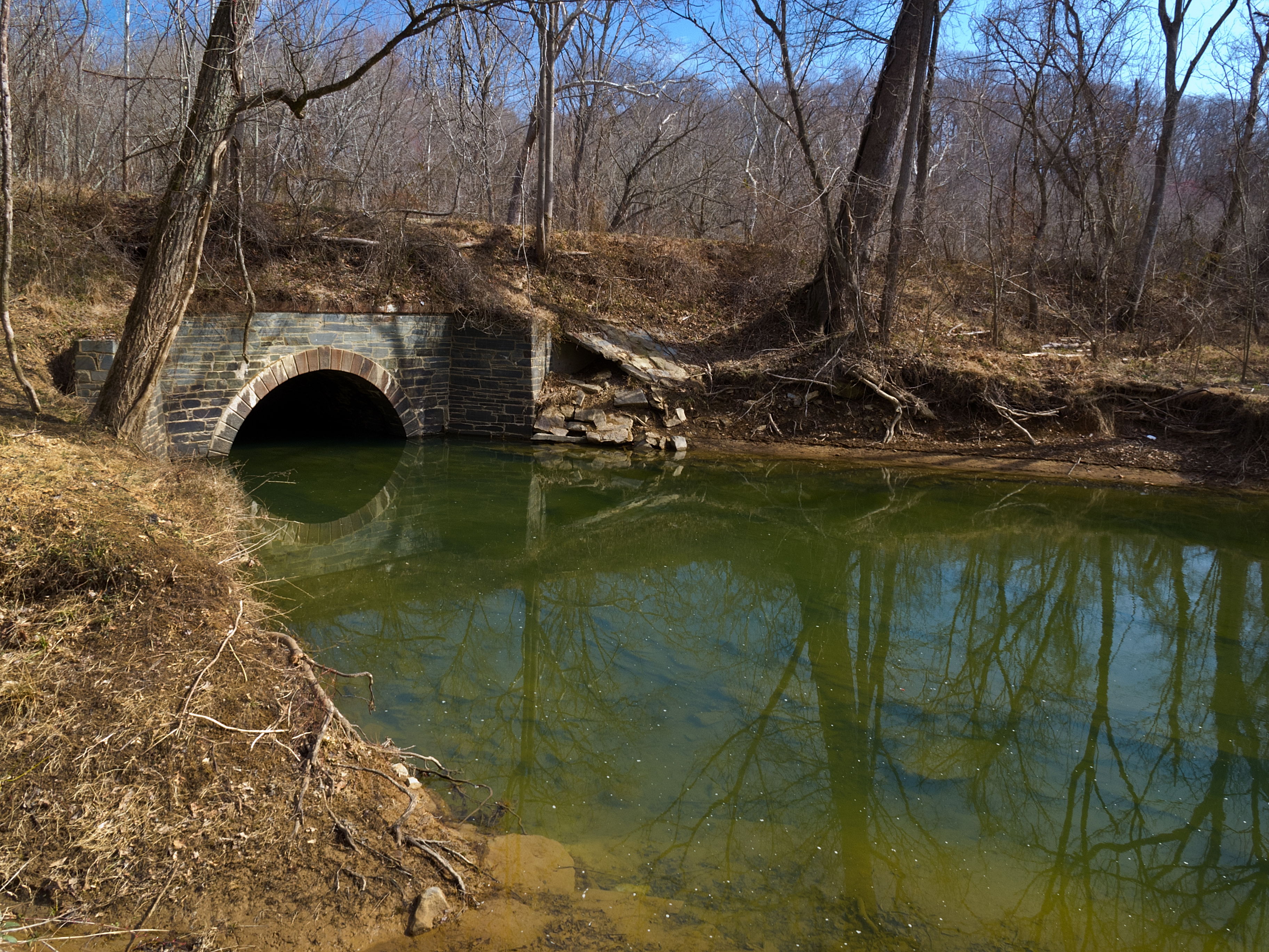 Muddy Branch, and the culvert it uses to go under the Chesapeake and Ohio Canal